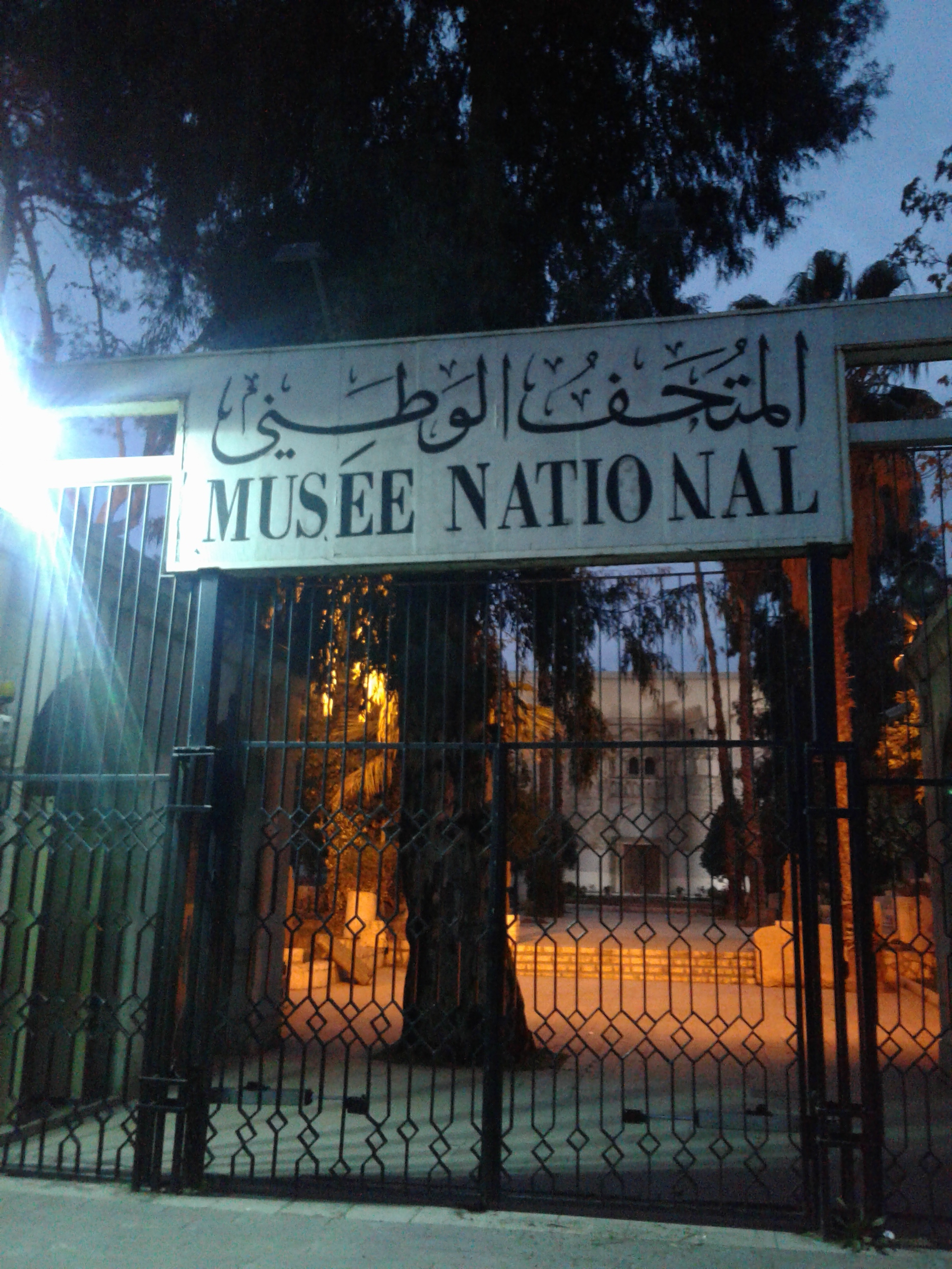 بوابة المتحف الوطني في دمشق بجانب جسر الرئيس ومقابل نهر بردى، ليلًا.